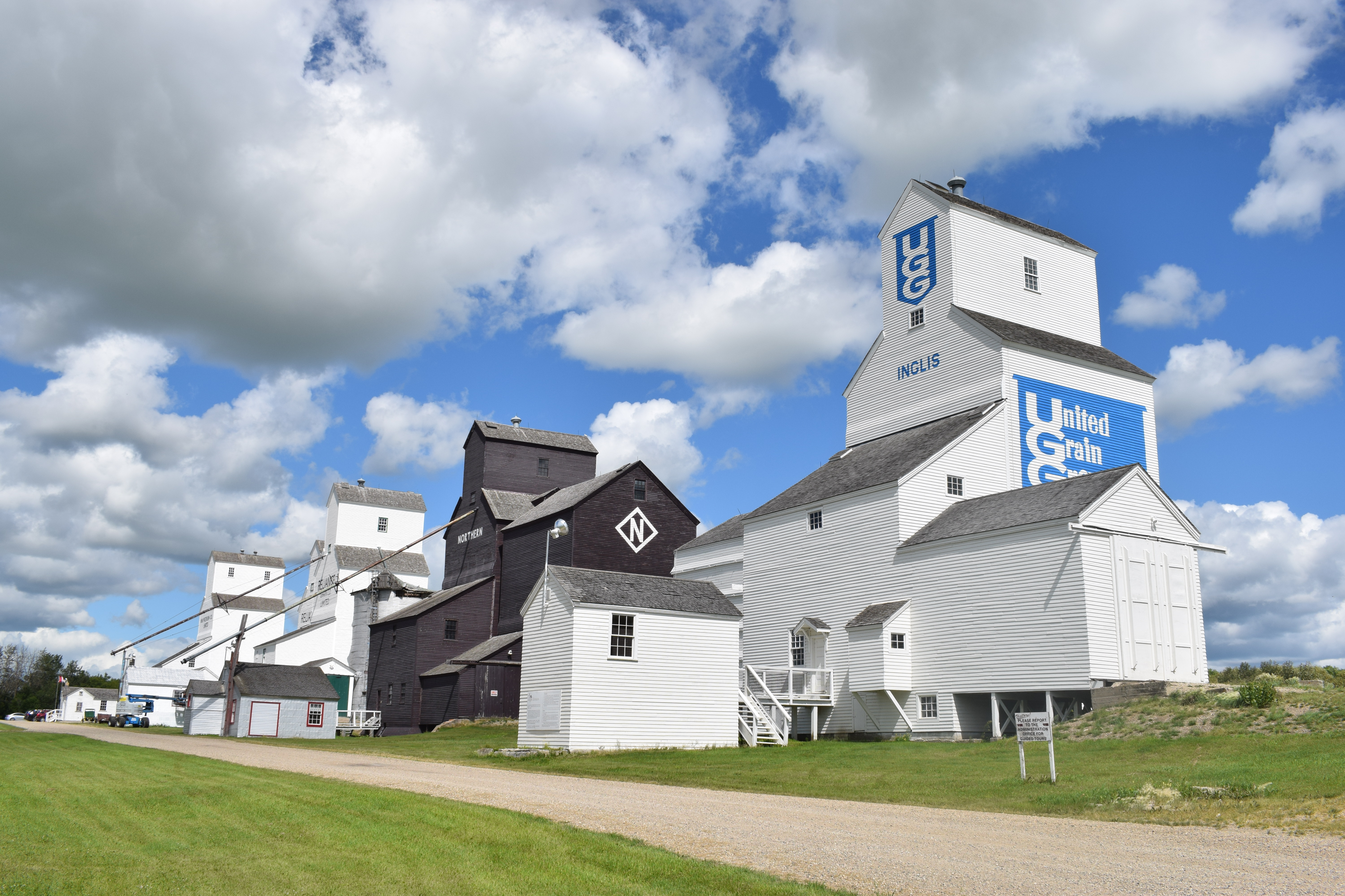 The national historic site at Inglis, Manitoba which features four original grain elevators in a preserved and historic state. This view is taken from the south.